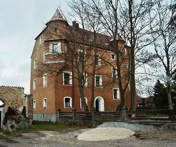 Schloss Neumühle Amberg